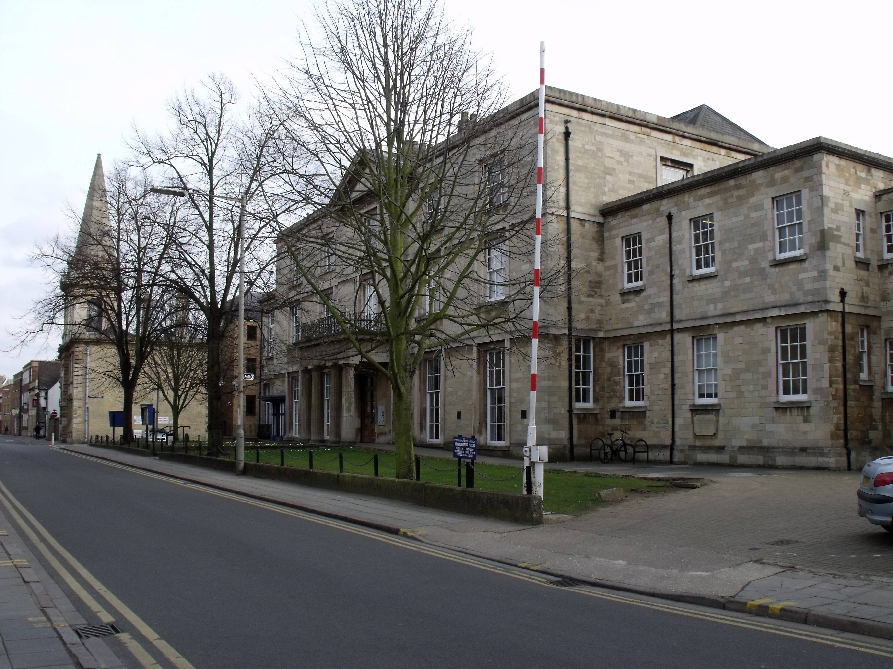 Peterborough Museum and Art Gallery